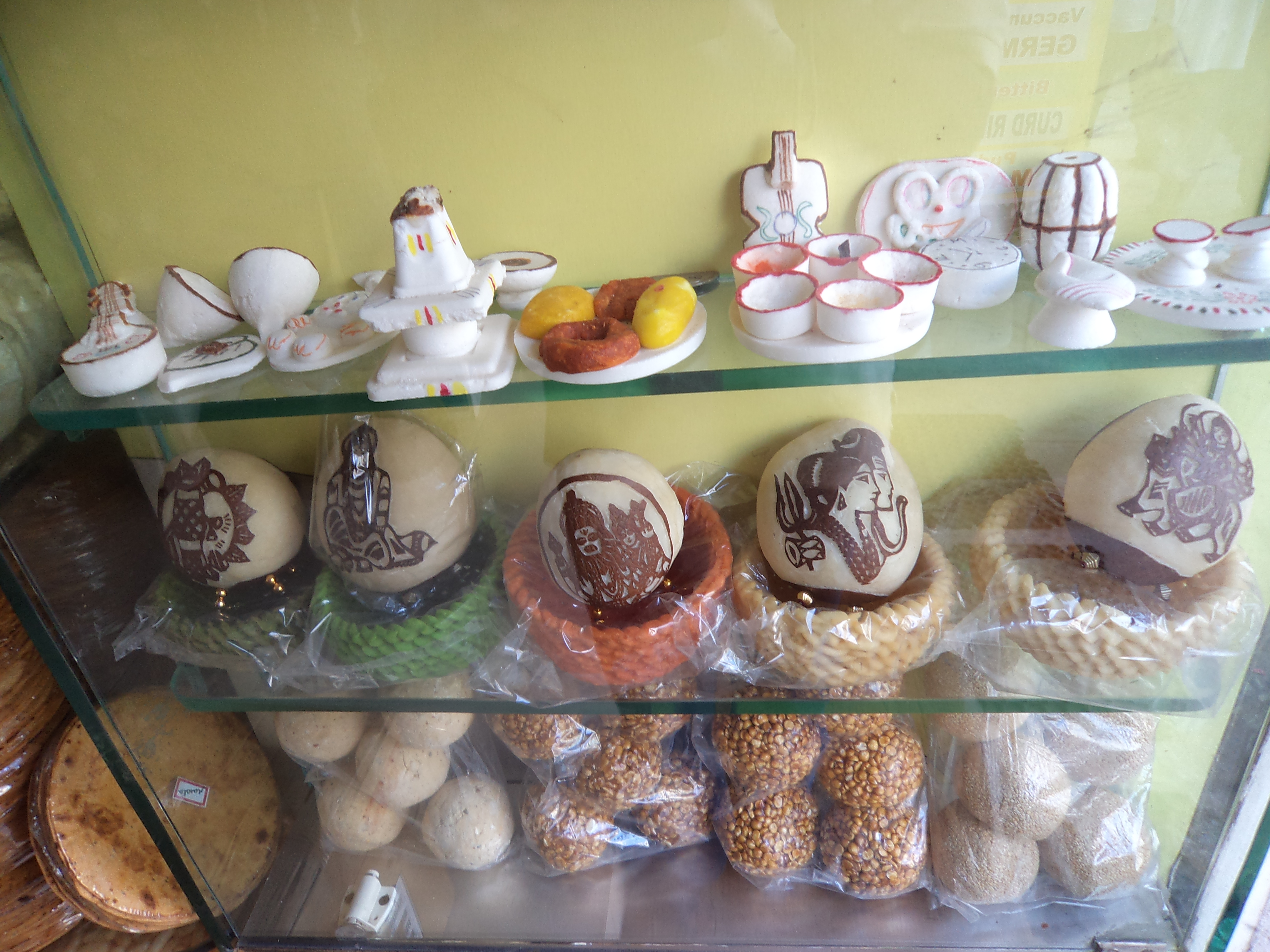 Crafts made onto food items. Displayed at a Telugu sweet shop in Bangalore.